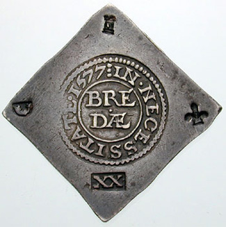 Low Countries, Breda. 1577. AR 20 Sols (7.53 gm). IN. NECESSITATE. 1577: around BRE/DÆ in two lines; trumpet, tower and fleur-de-lis stamped in corners; XX in incuse below. Delmonte 183; Maillet pl. 17, 4; de Witt 808; KM -. Toned, nice VF. Rare. In the confused and tumultuous period of the wars between the Northern Dutch provinces and the Spaniards, Breda changed hands at least six times. The city was under near constant siege, and it was during the assault of this Spanish held town by army of the Prince of Orange that this coin was struck.